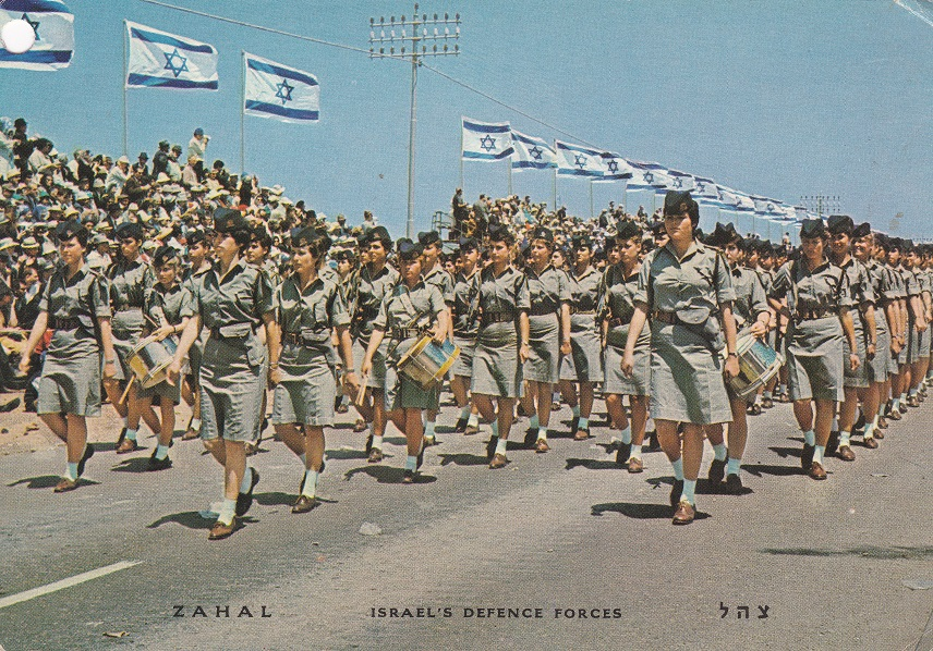 Israel Defence Forces. Girl soldiers armed with "uzi" submachine gun on Independance Parade